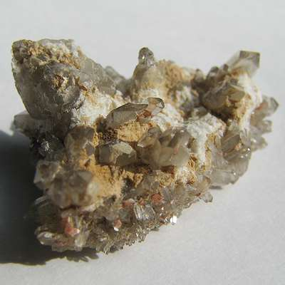 A smokey quartz crystal cluster collected near North Groton, New Hampshire.